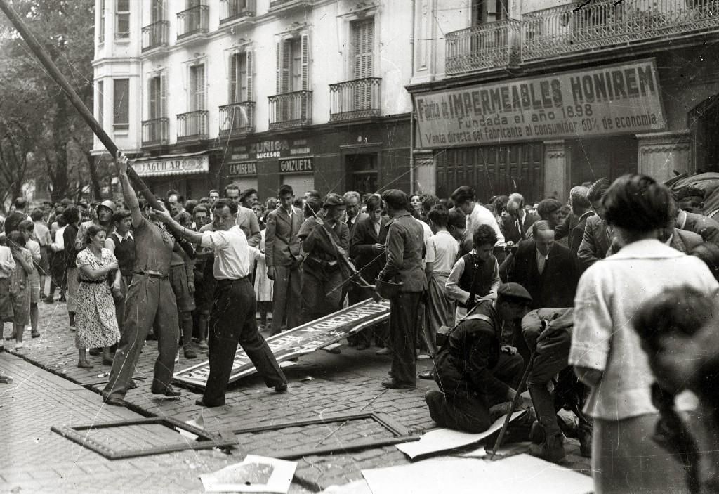 Pro-rebel residents taking to the streets following the fall of Donostia-San Sebastián, 13 September 1936